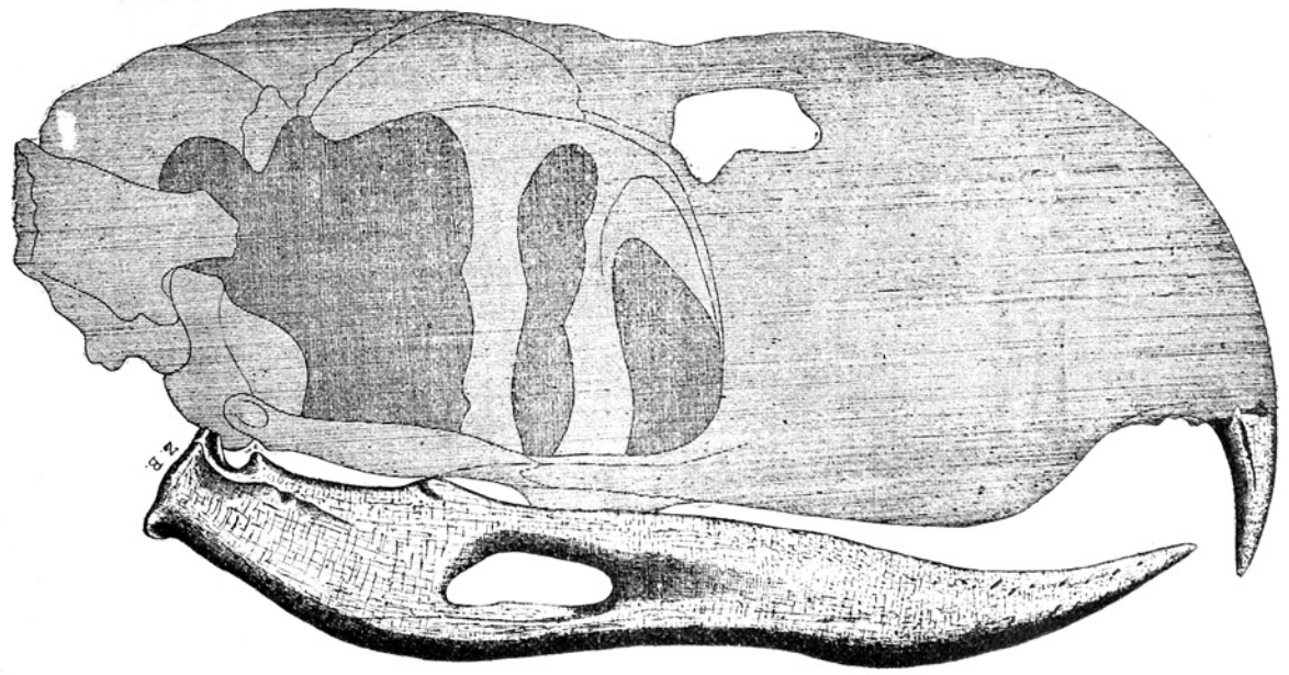 Sketch of a skull of the terror bird Phorusrhacos found by Carlos Ameghino in 1891. Sadly, most of the skull crumbled before it could be recovered. These parts are therefore shaded in the sketch. This sketch was originally contained in a paper published by Florentino Amegino in 1895 and is thus old enough to be in the public domain.